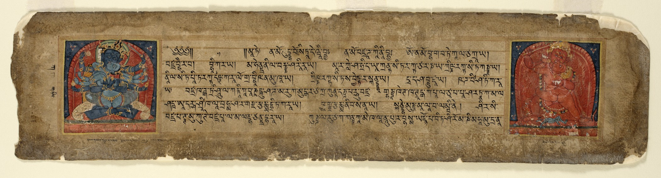 Central Tibet, Shalu Monastery (?), late 14th - early 15th century Manuscripts Opaque watercolor and ink on paper Purchased with funds provided by The Louis and Erma Zalk Foundation (M.81.9.2) South and Southeast Asian Art